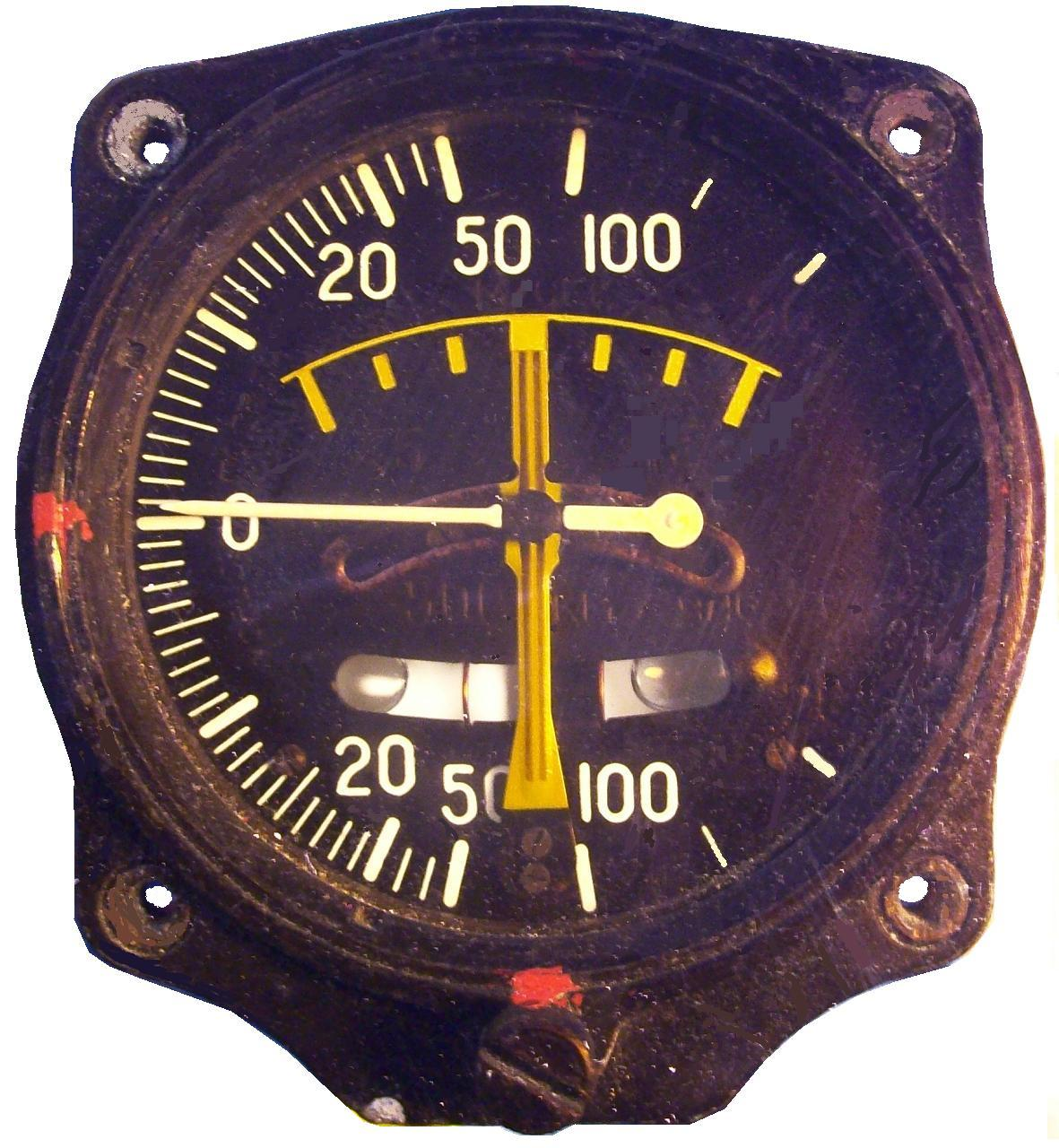 turn indicator / variometer combi instrument, Sovj. Union approx. 1960